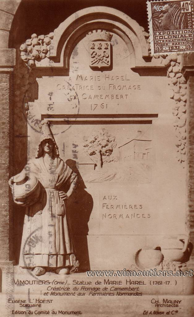 Vimoutiers postcard: Under an arch, a stele to Marie Harel and the female farmers